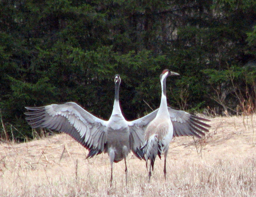 Courting cranes in finnish countryside